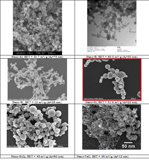 Various nano-particles manufactured via induction plasma processing.